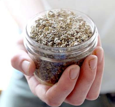 'Spice' -- a designer synthetic cannabinoid.